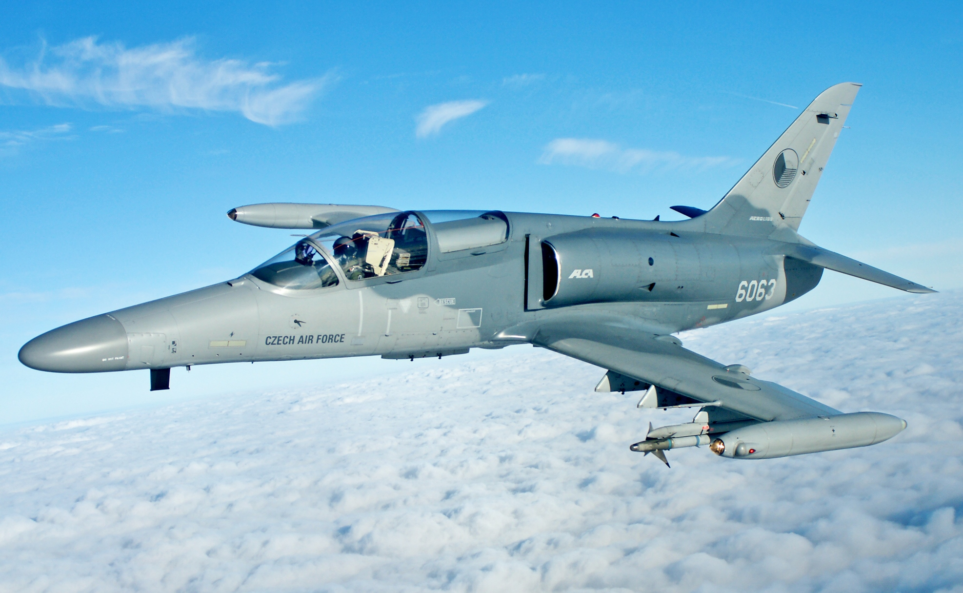 Aero L-159 (6063) in flight